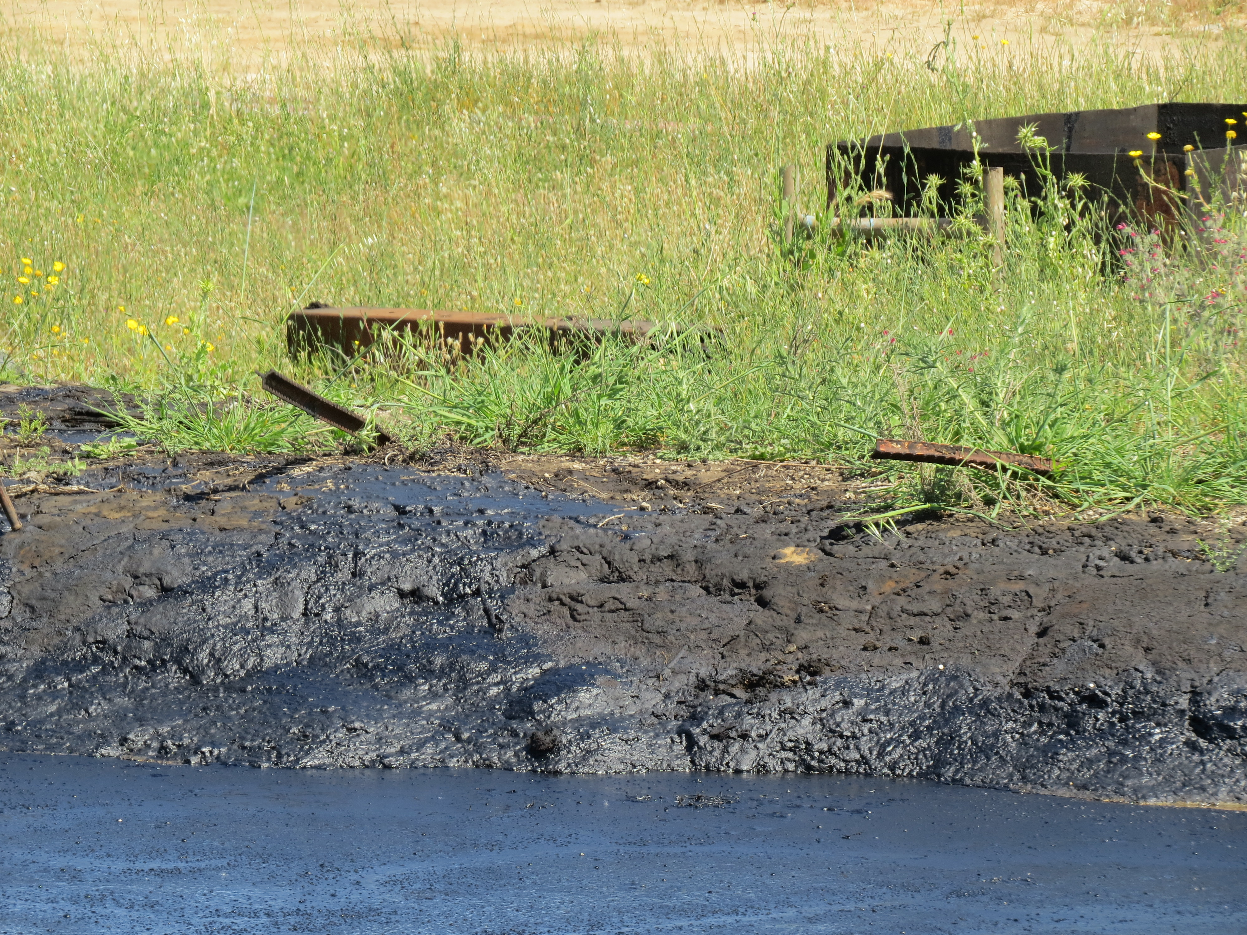 LAPIDOT oil filed in israel Environment Interests